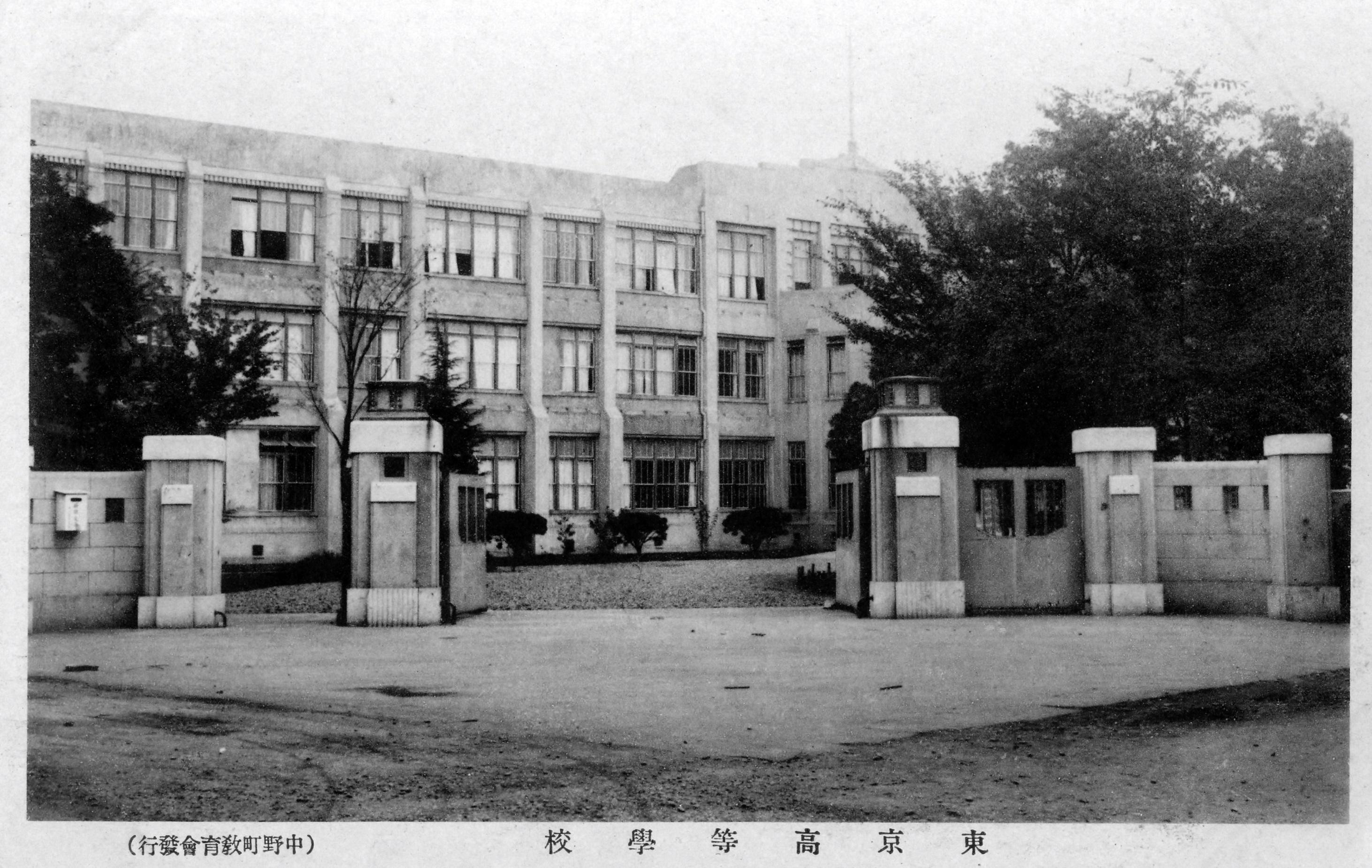 The Tokyo High School, Nakano, Tokyo, Japan